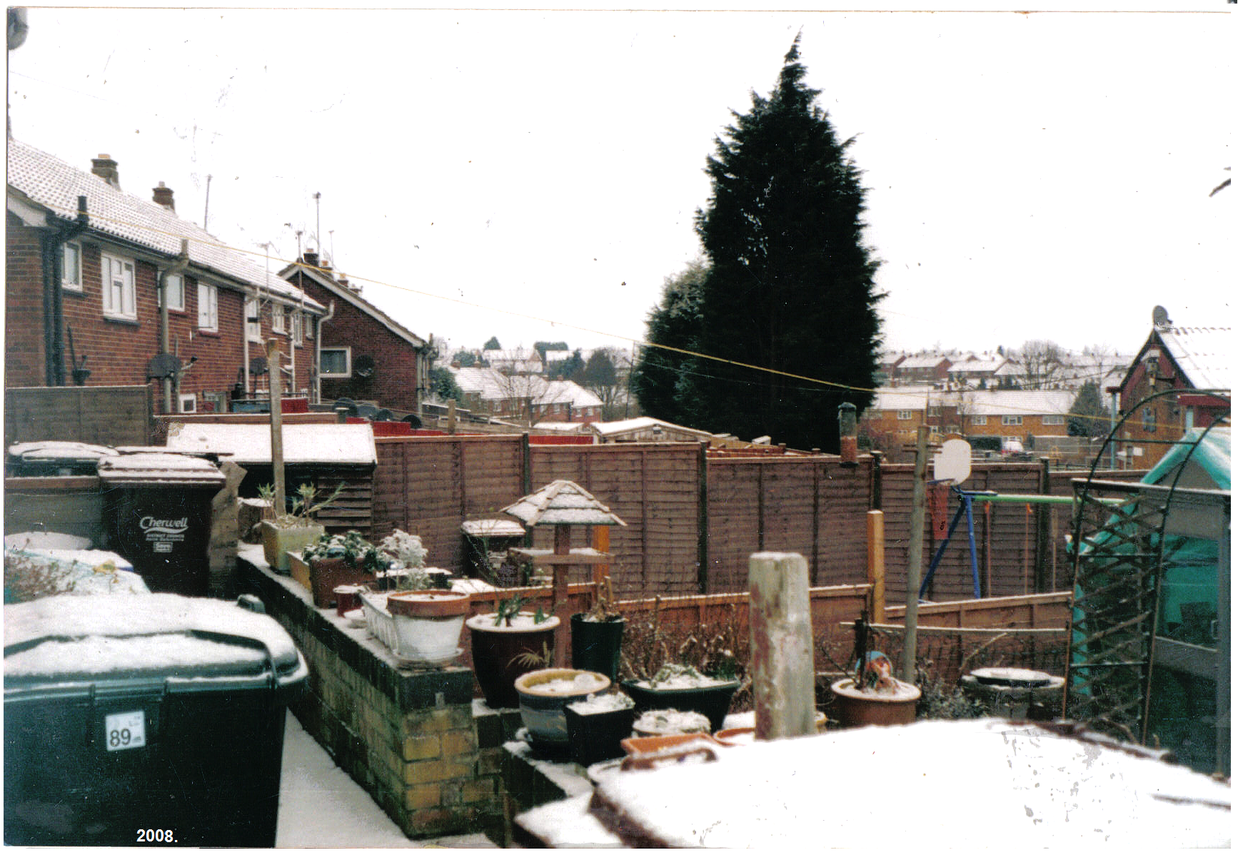 Banbury town in the snow.